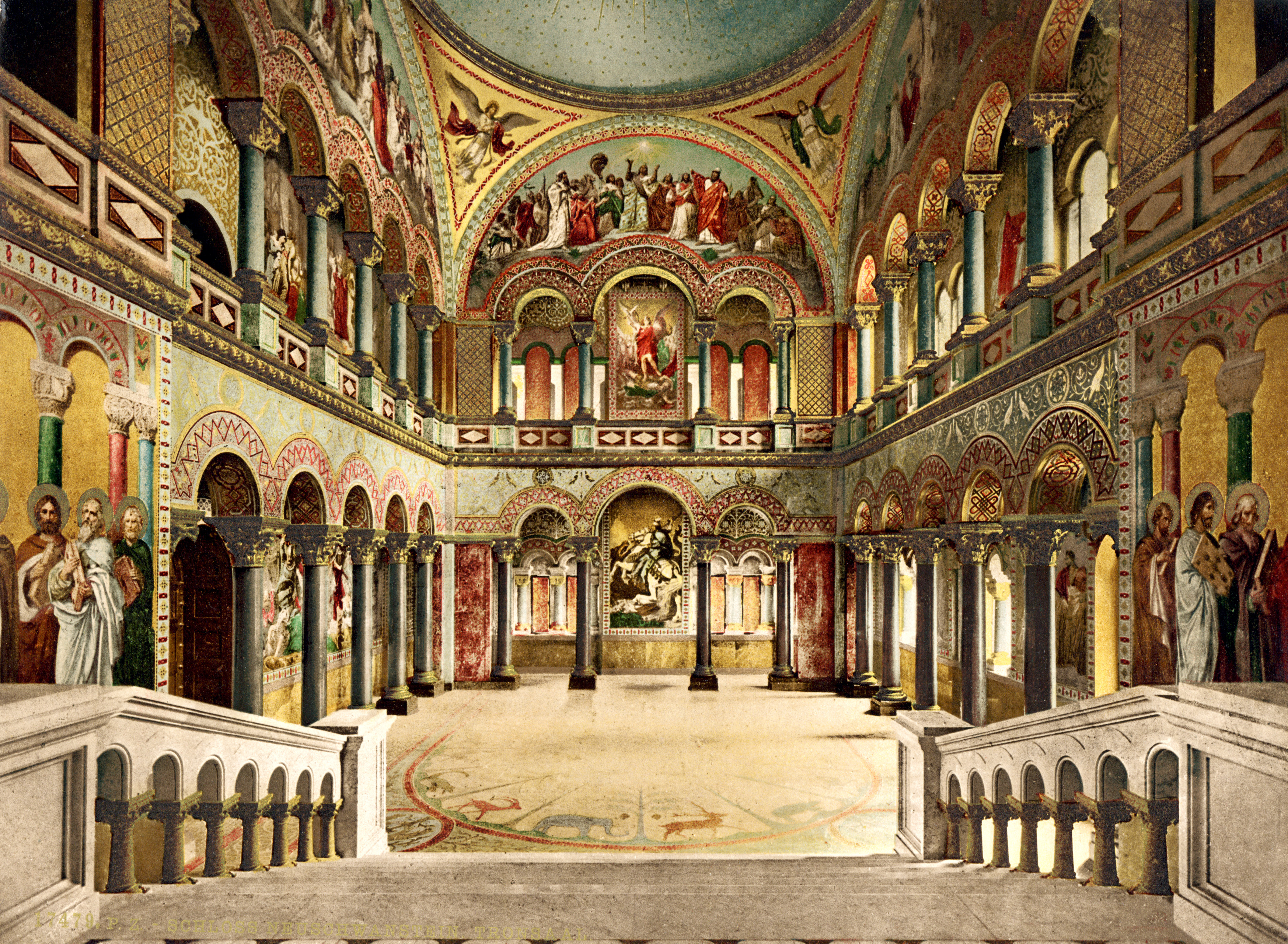 Throne room, Neuschwanstein Castle, Upper Bavaria, Germany. Photograph by Joseph Albert 1886, postcard published ca. between 1890 and 1900. Detroit Publishing Co. print no. 17479.